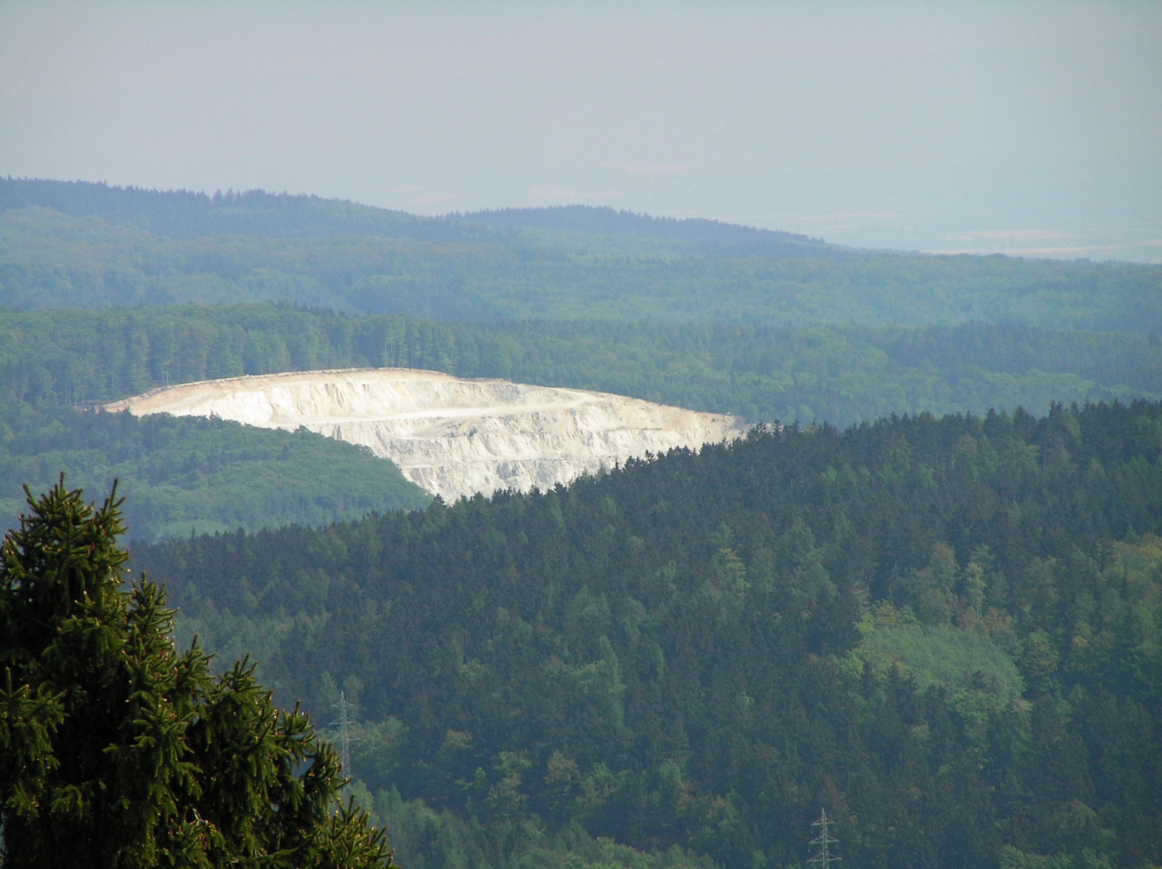 Taunus-Quarzitwerke, Köppern, Friedrichsdorf, Germany, view from Herzberg